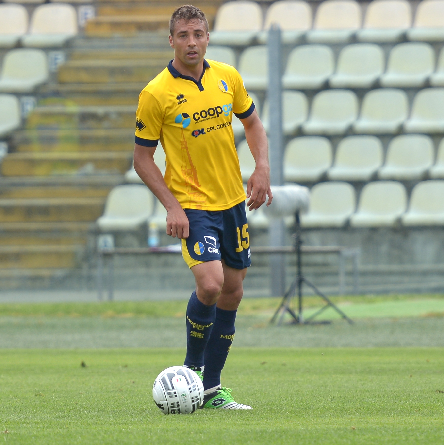 Thiago Cionek in action with the shirt of Modena Footall Team